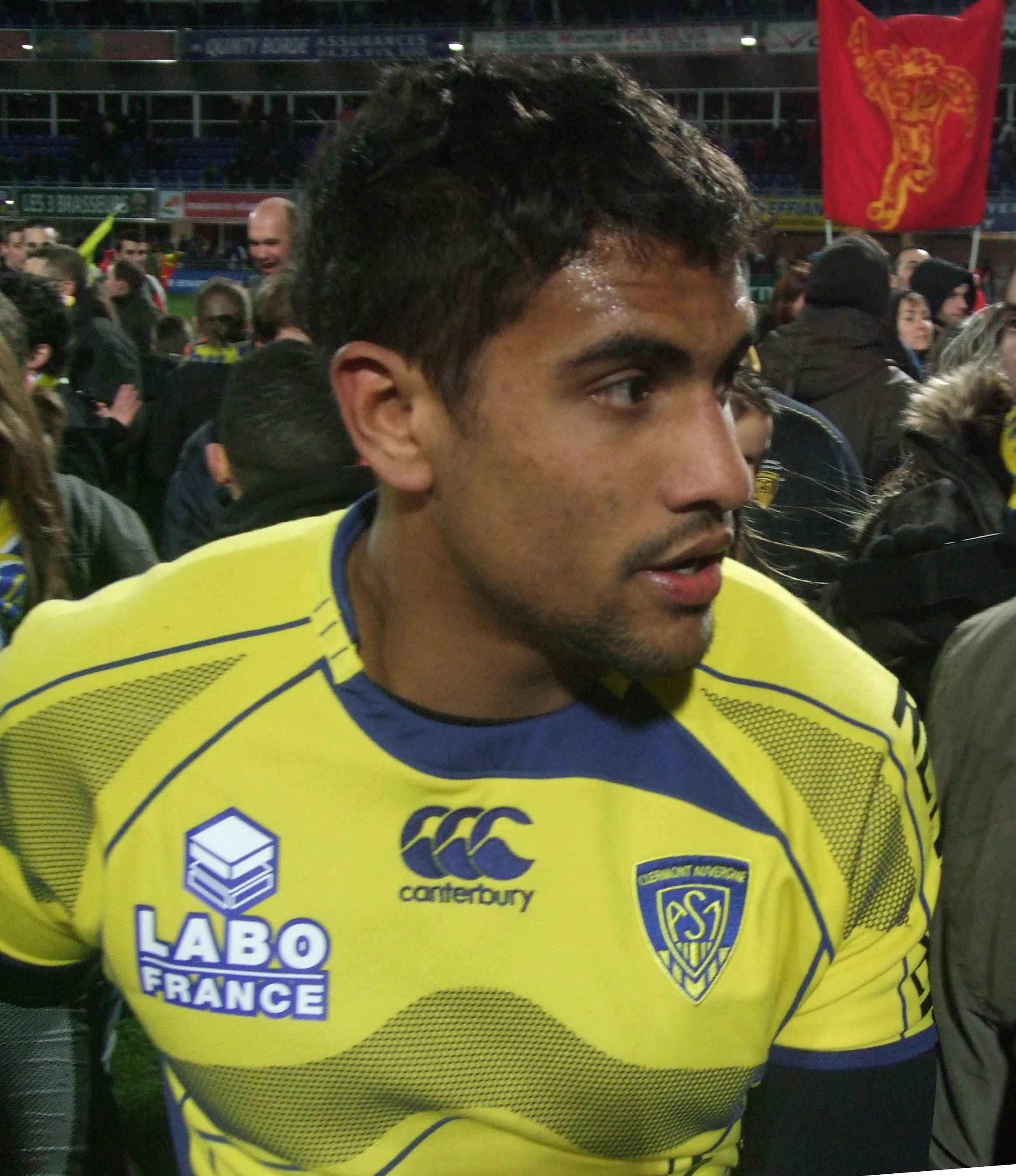 The french rugbyman Wesley Fofana with ASM Clermont Auvergne